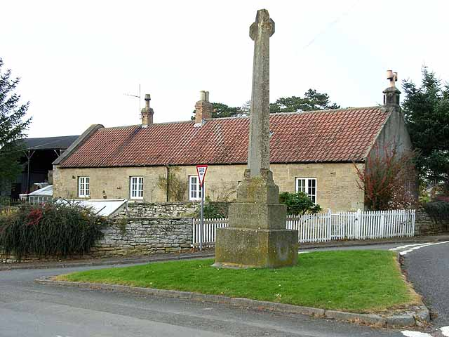 War memorial at Hartburn Standing on a very small village green.